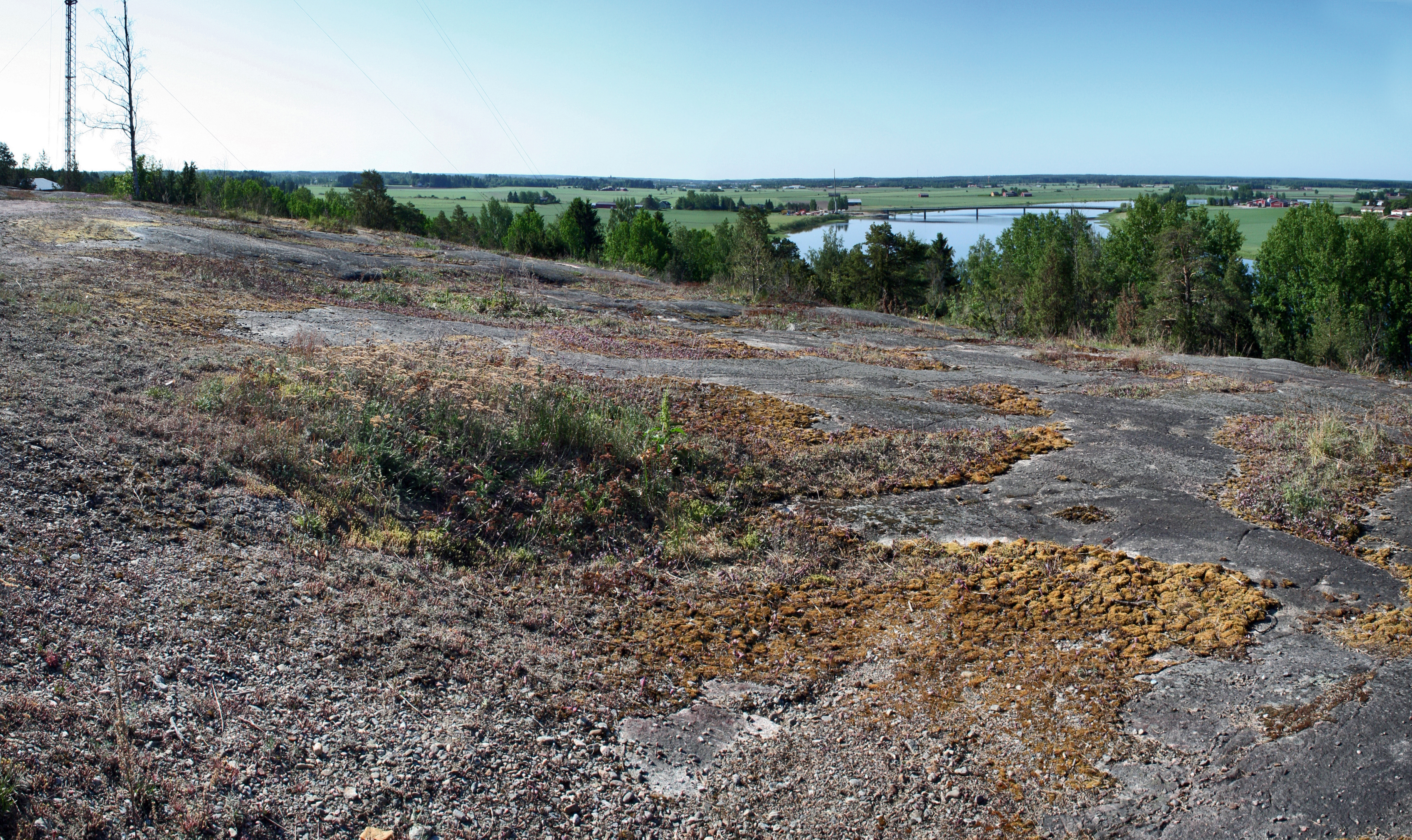 A view fron hill Ripovuori at Huittinen, Finland